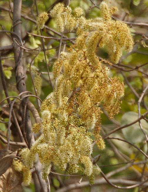 Piluki, oval-leaved wheel creeper, Dhavshira, Pewar Wel, Pilokha, Verragay, Odaikodi, Vennangukodi, Geddepeyyeru, Shirtal Boddi, Putangi, Yada-tige or ulavai maram Combretum albidum in Kinnerasani Wildlife Sanctuary, Andhra Pradesh, India.